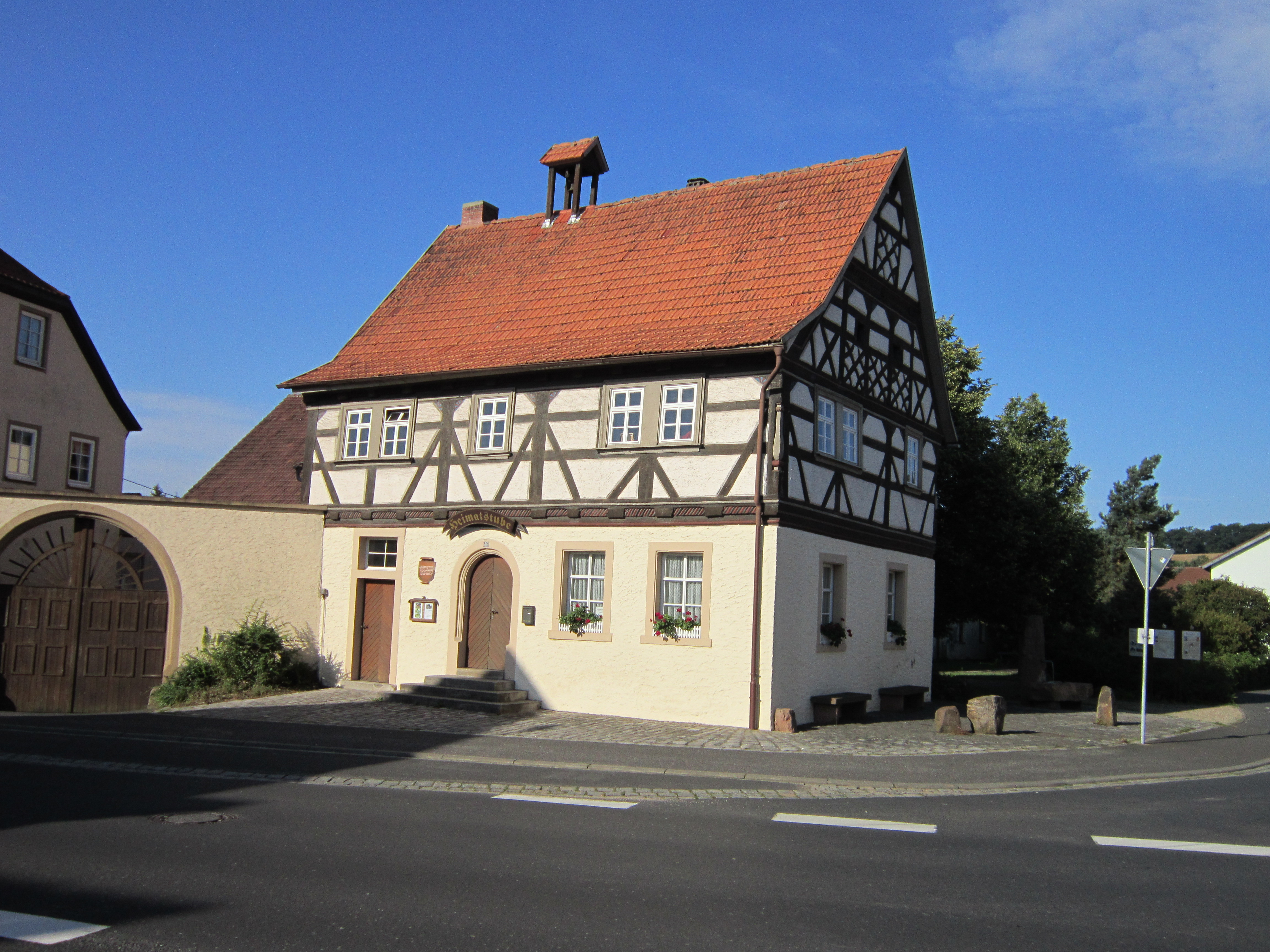 Former town hall in Reiterswiesen, a quarter of the German spa town Bad Kissingen in Lower Franconia (Bavaria).